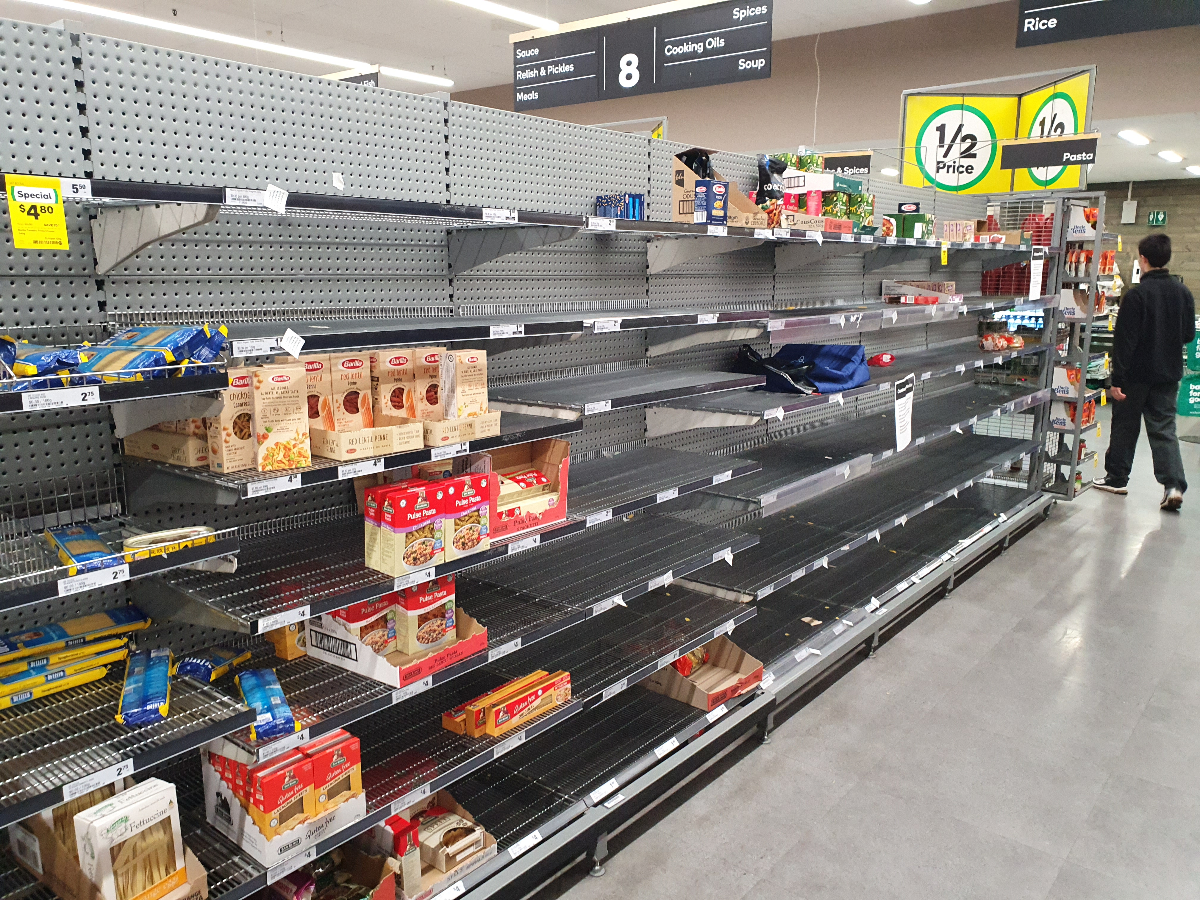 Supermarket shelves that stock dry pasta varieties are almost empty due to panic-buying as the result of the COVID-19 coronavirus outbreak. This was taken at a Woolworths supermarket in Melbourne, Australia.